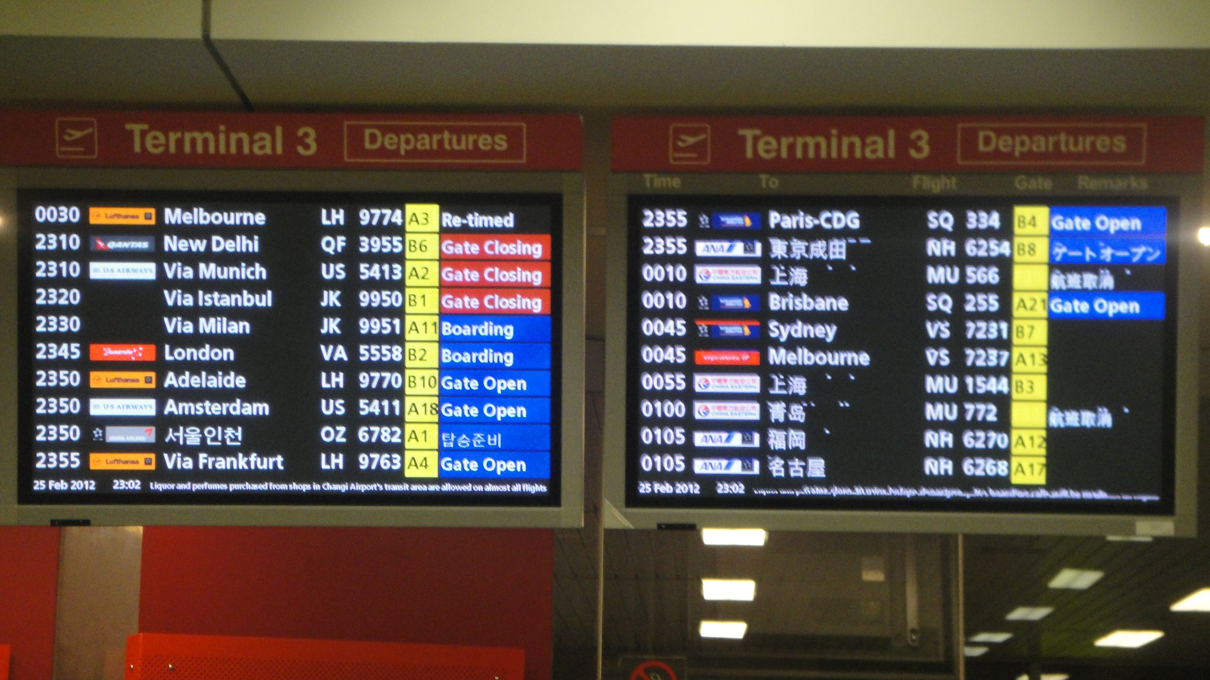 Departure screen at Changi Airport, Singapore